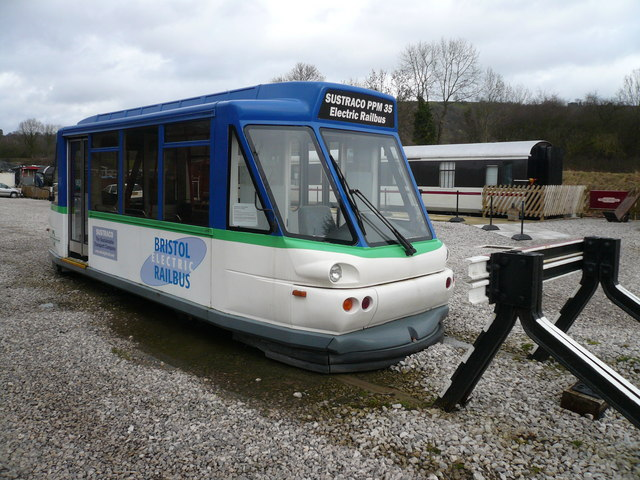 Wirksworth - Ecclesbourne Valley Railway Bristol Electric Railbus.